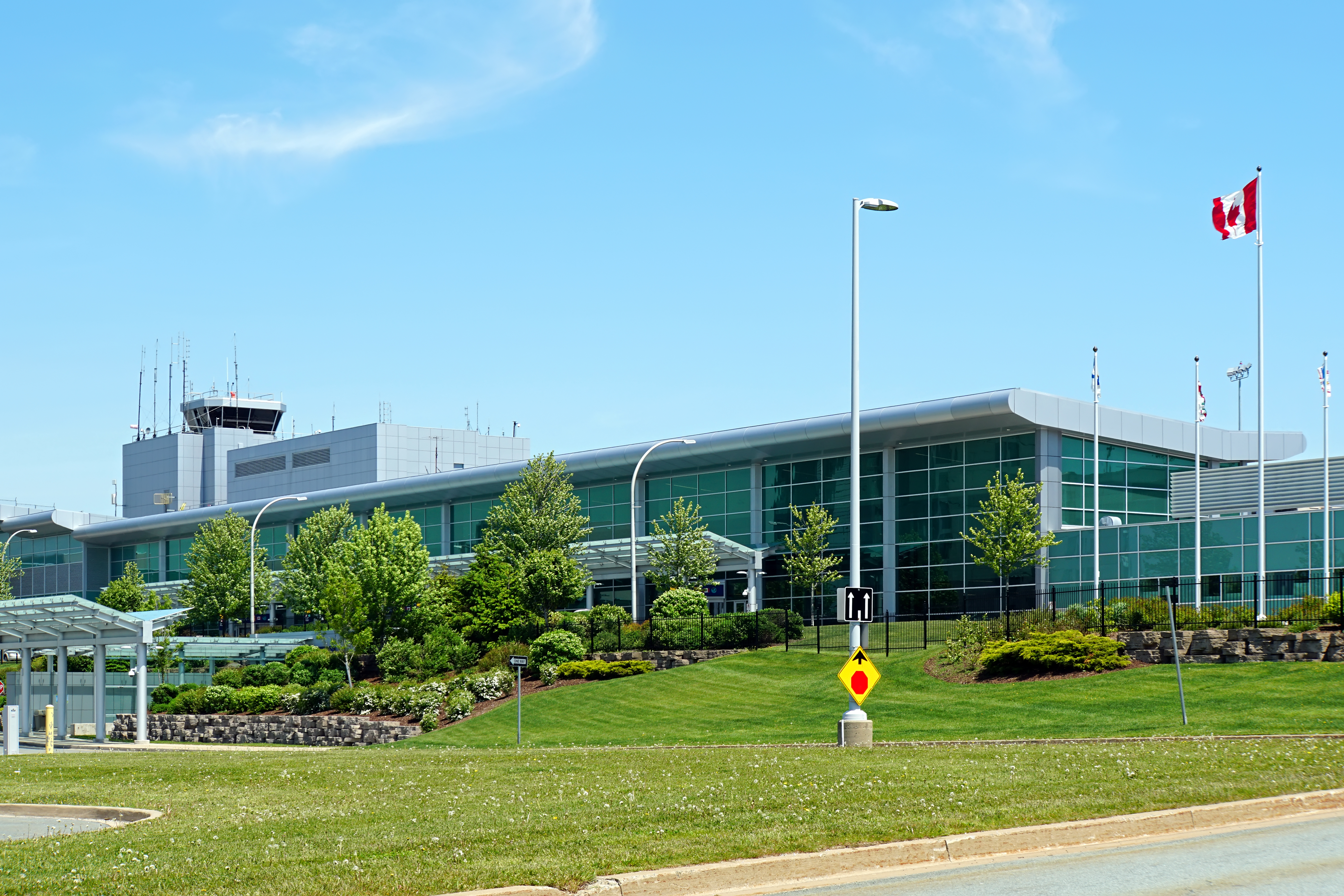 PLEASE, NO invitations or self promotions, THEY WILL BE DELETED. My photos are FREE to use, just give me credit and it would be nice if you let me know, thanks. Halifax Stanfield International Airport in Enfield, Nova Scotia. It serves Halifax, mainland Nova Scotia and adjacent areas in the neighbouring Maritime provinces. The airport is named in honour of Robert Stanfield, the 17th Premier of Nova Scotia and leader of the federal Progressive Conservative Party of Canada. The airport, owned by Transport Canada since it was constructed, has been operated since 2000 by the Halifax International Airport Authority. The airport is the 8th busiest airport in Canada by passenger traffic.